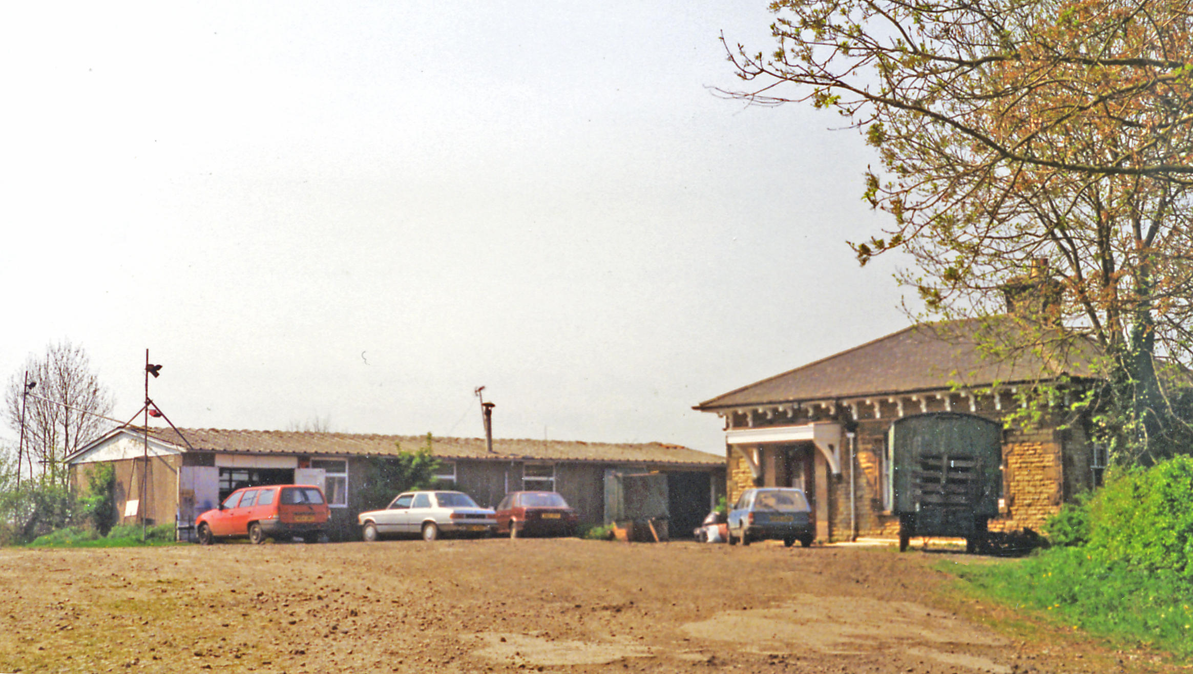 Gretton station (remains), 1995. View SW, towards Corby, Kettering and London: ex-Midland Railway (St Pancras) - Kettering - Corby - Manton - Melton Mowbray - Nottingham main line, closed to passengers 6/6/66; this station was closed 18/4/66. (The railway was the other side of these buildings.)